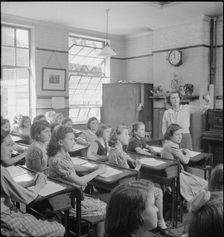 Roman Catholic Elementary School- Life at St Joseph's, Upper Norwood, 1943 Miss Capel points something out to her class on the map (not visible) during a geography lesson at St Joseph's Elementary School. The girls sit at desks in rows and listen intently to the descriptions of the places being given by their teacher.